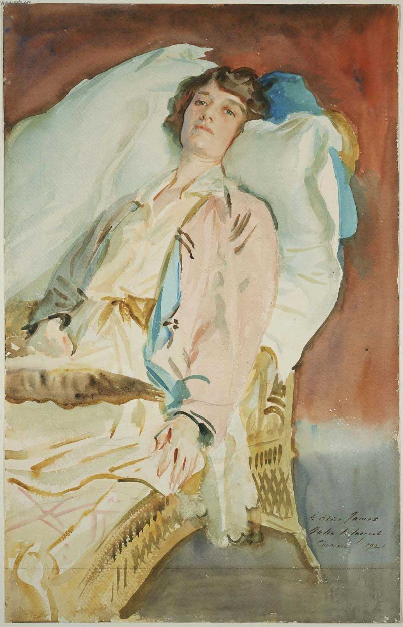 Alice Runnels James John Singer Sargent -- American painter 1921 Museum of Fine Arts, Boston Transparent and opaque watercolor over graphite pencil on paper 53.5 x 34.3 cm (21 1/16 x 13 1/2 in.) Gift of William James, 1977 Jpg: MFA / The Pragmatic Romanticist